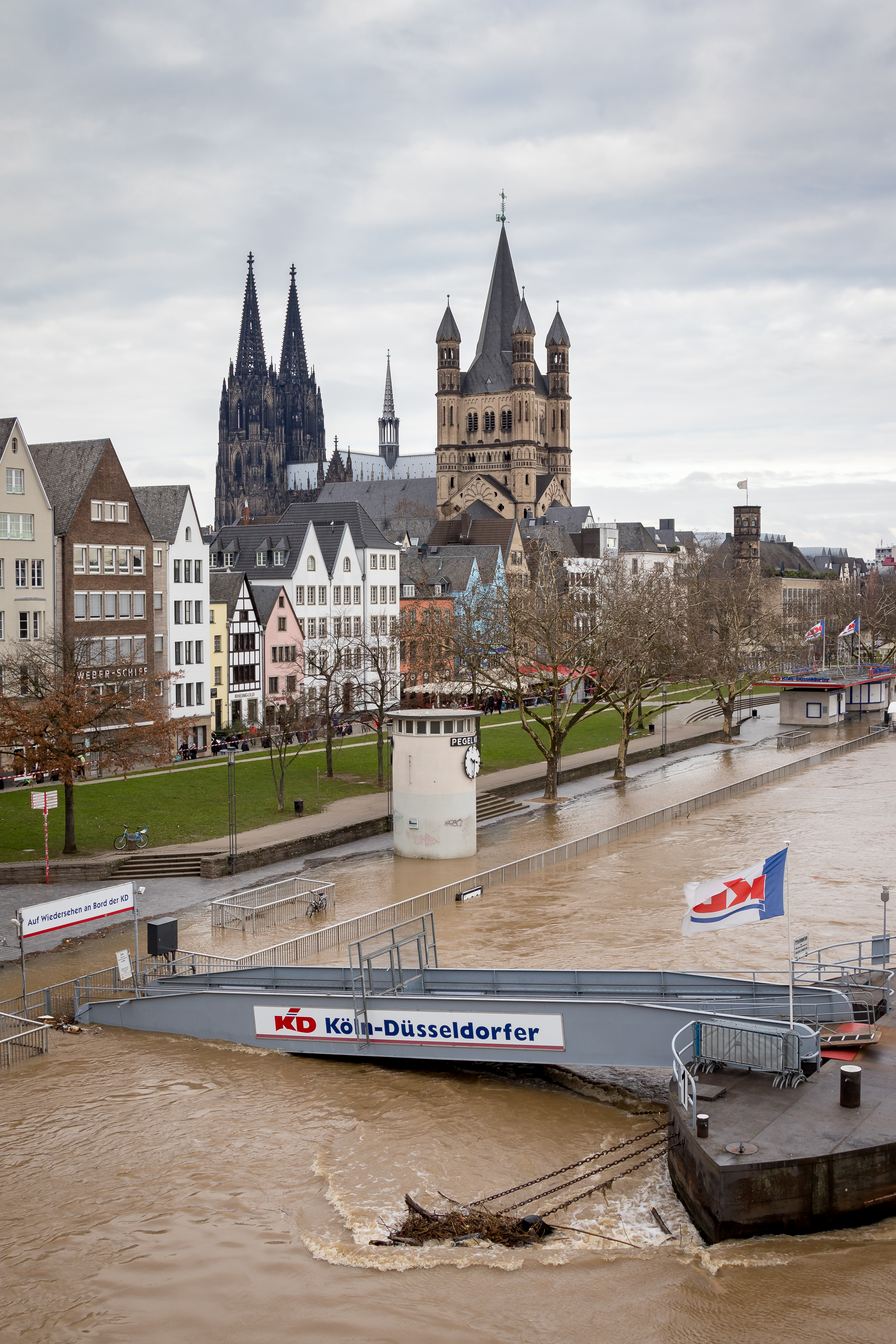 Stream gauge with floods of river Rhine in Cologne, January 7 in Germany.